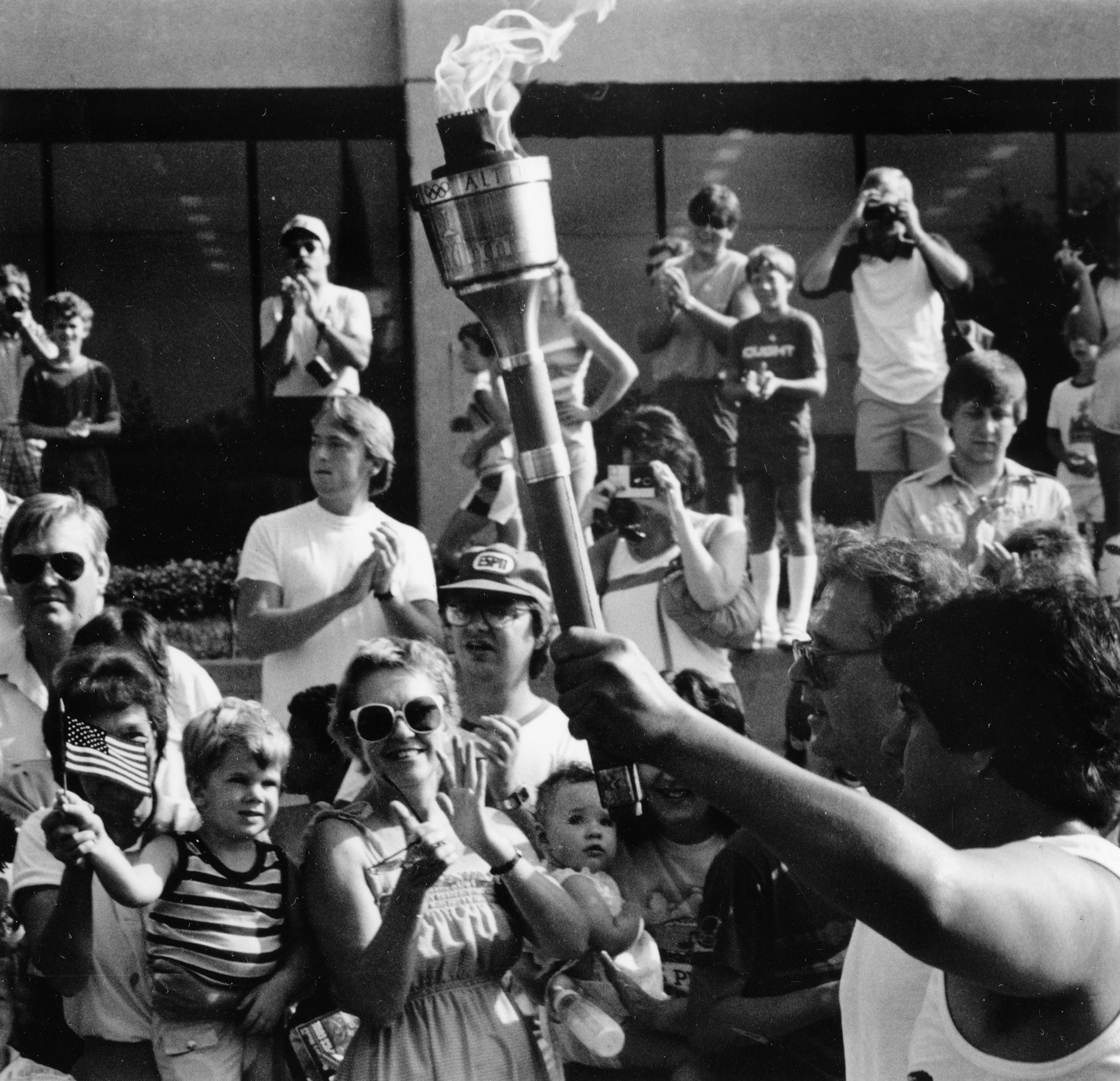 Olympic Torch being carried in front of crowd at University of Texas at Arlington's Hereford Student Center.